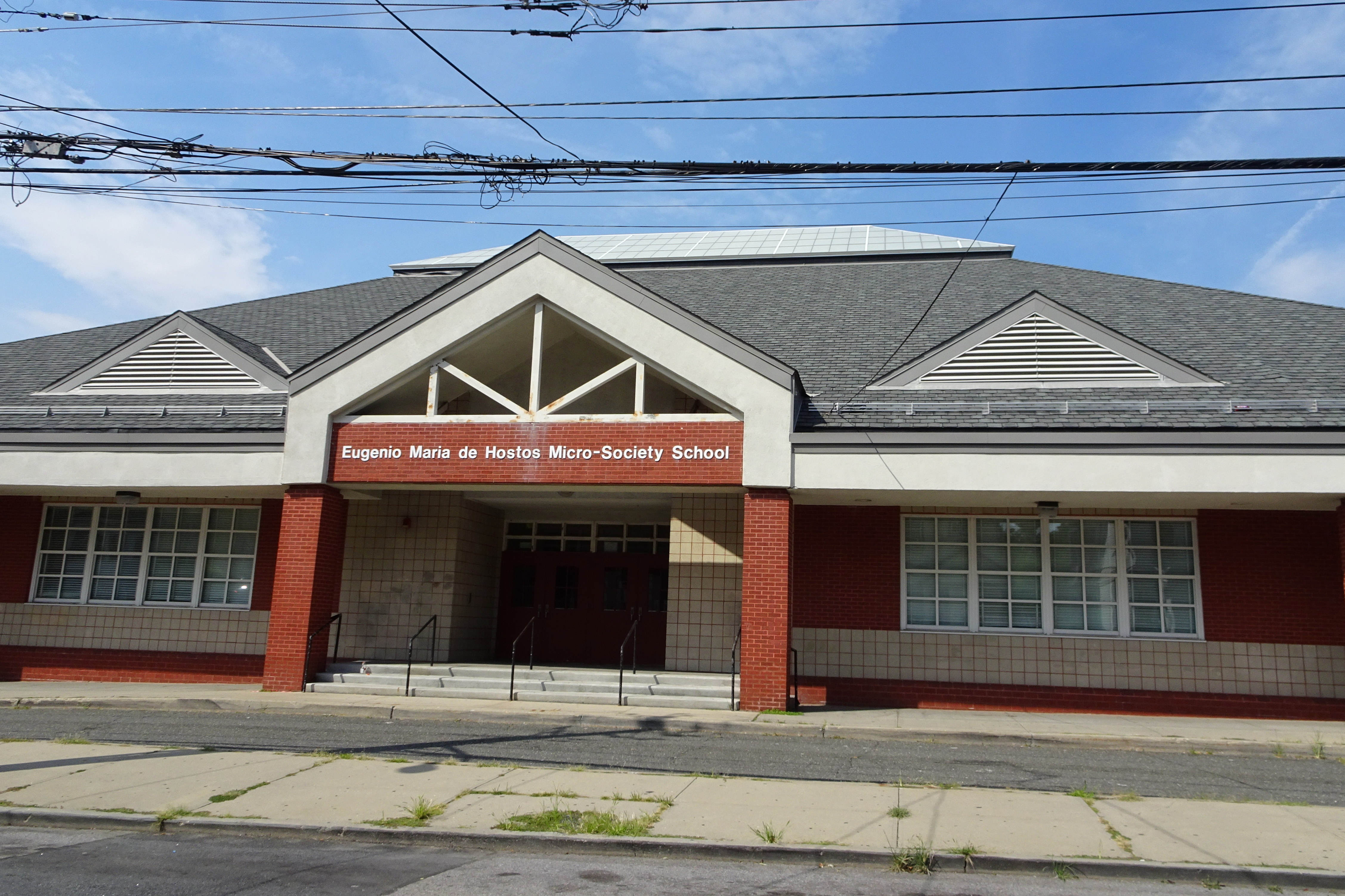 Looking north across Morris Street at school on a sunny early afternoon